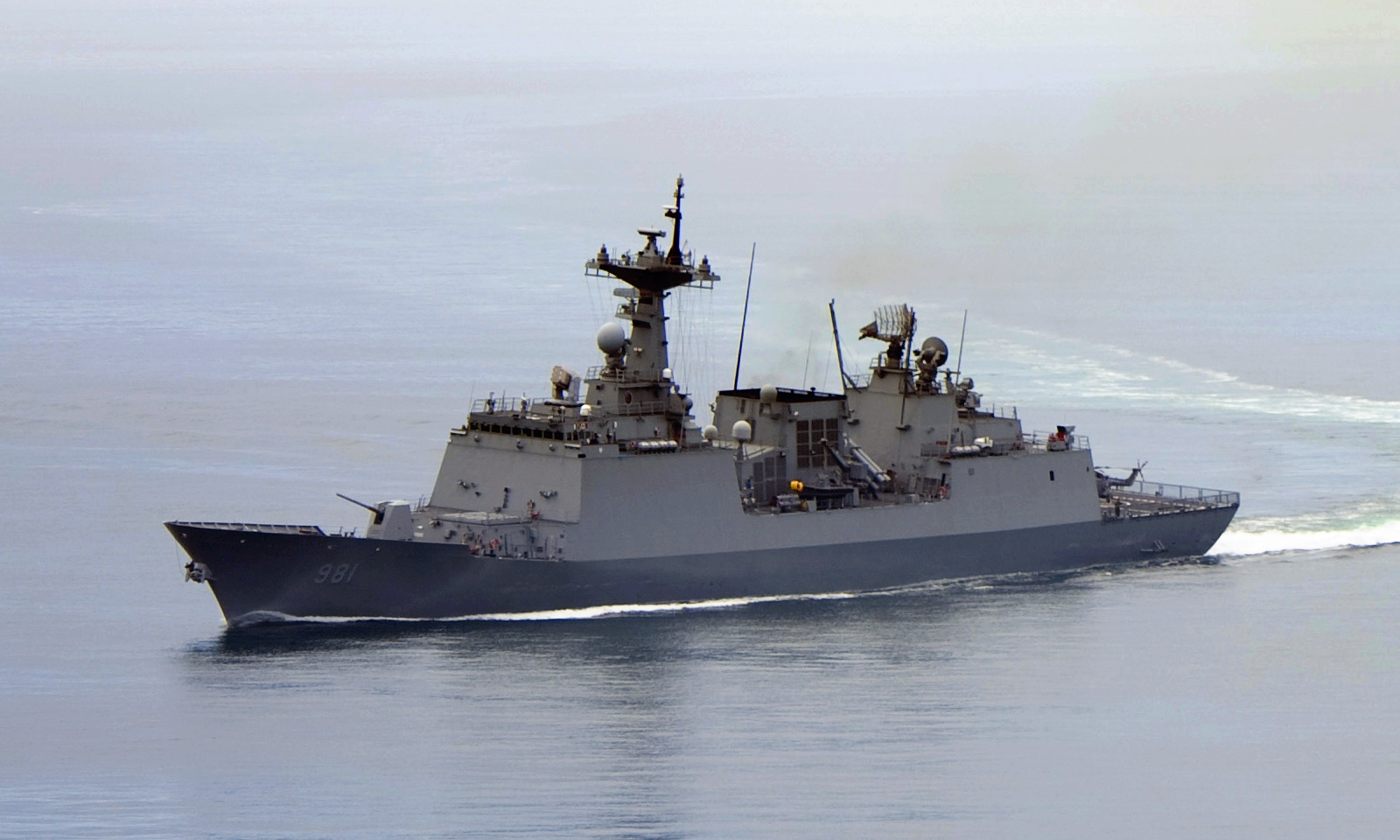 BUSAN, Republic of Korea (July 25, 2010). The Republic of Korea Chungmugong Yi Sun-shin class destroyer Choi Young (DDH 981) during a joint maritime and air readiness exercise "Invincible Spirit" with the U.S. Navy in the seas east of the Korean peninsula from July 25-28, 2010.